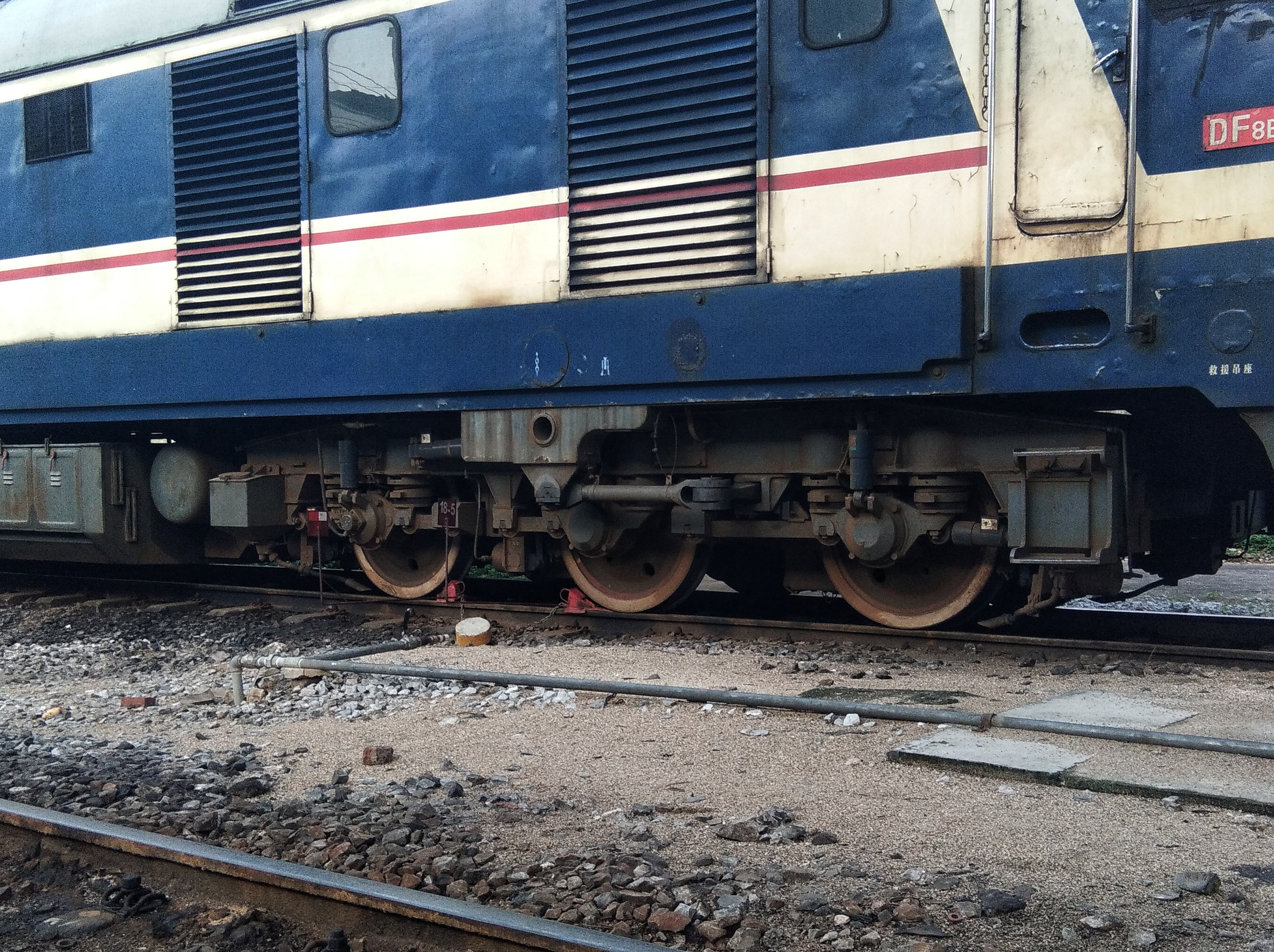 DF8B-7001 closeup of the radial bogie.